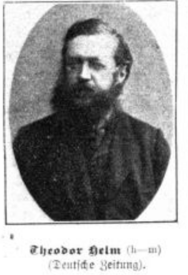 Theodor Helm in 1897